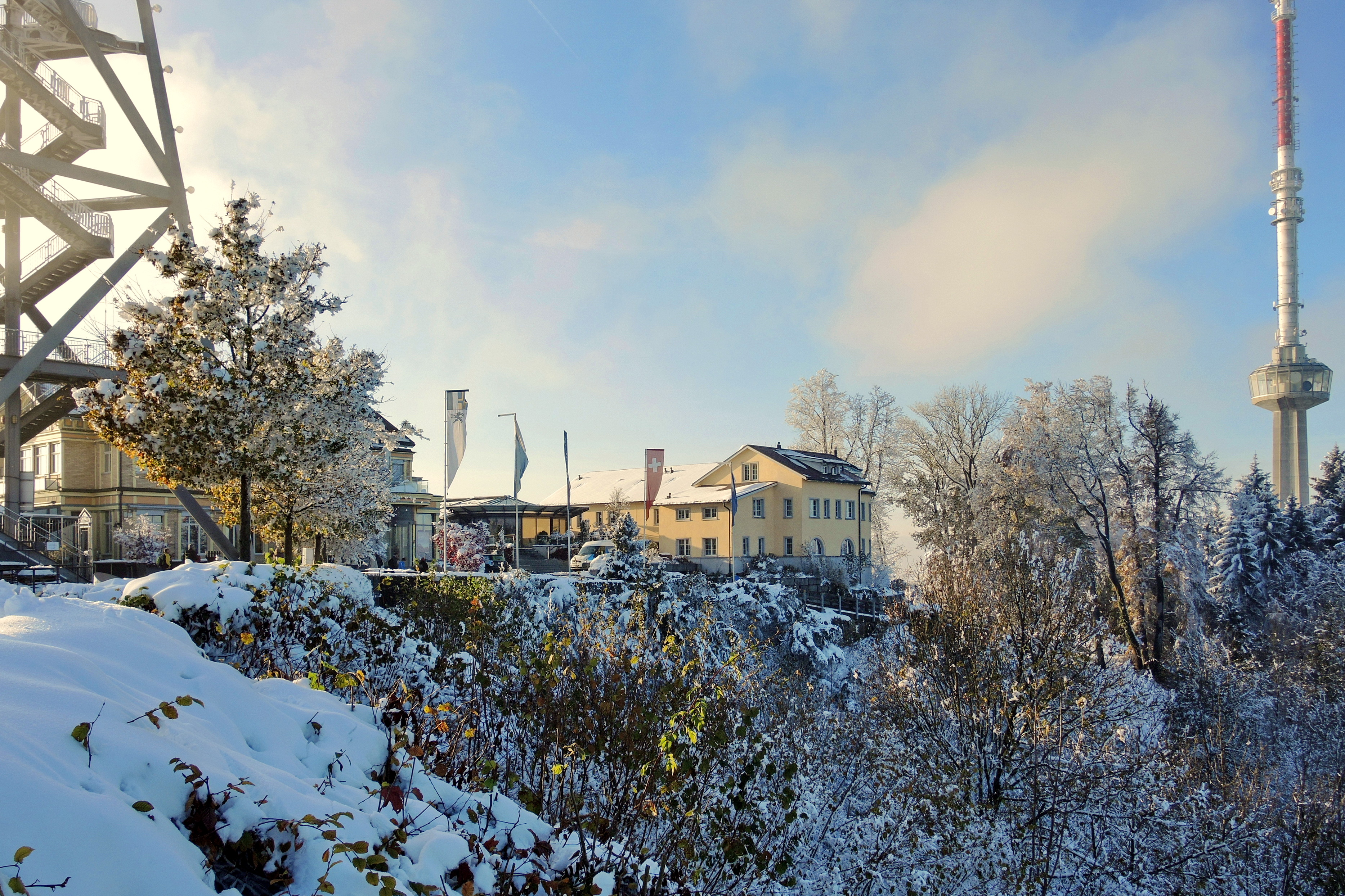 Uetliberg Uto Kulm : location of the 1st millennium BC celtic oppidum respectively the medieval Uetliburg castle.